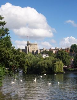 Windsor Castle and the River Thames from the Brocas Meadows in Eton.